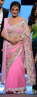 Shaina NC, Ranbir Kapoor, Sadhana, Aditi Rao Hydari at the Cancer Patients Aid Association's fashion show by Shaina NC